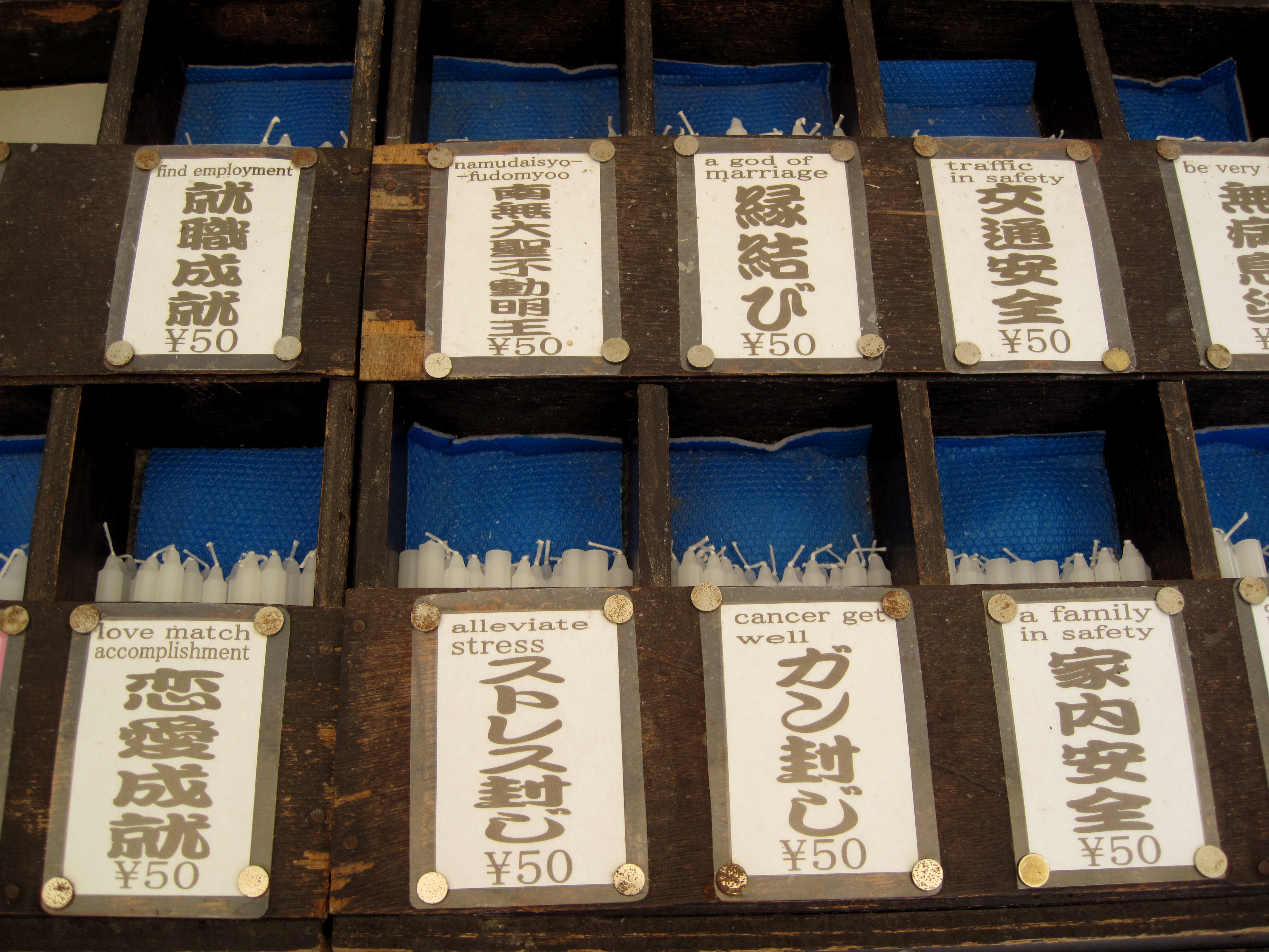 What do you expect for 100 yen? other